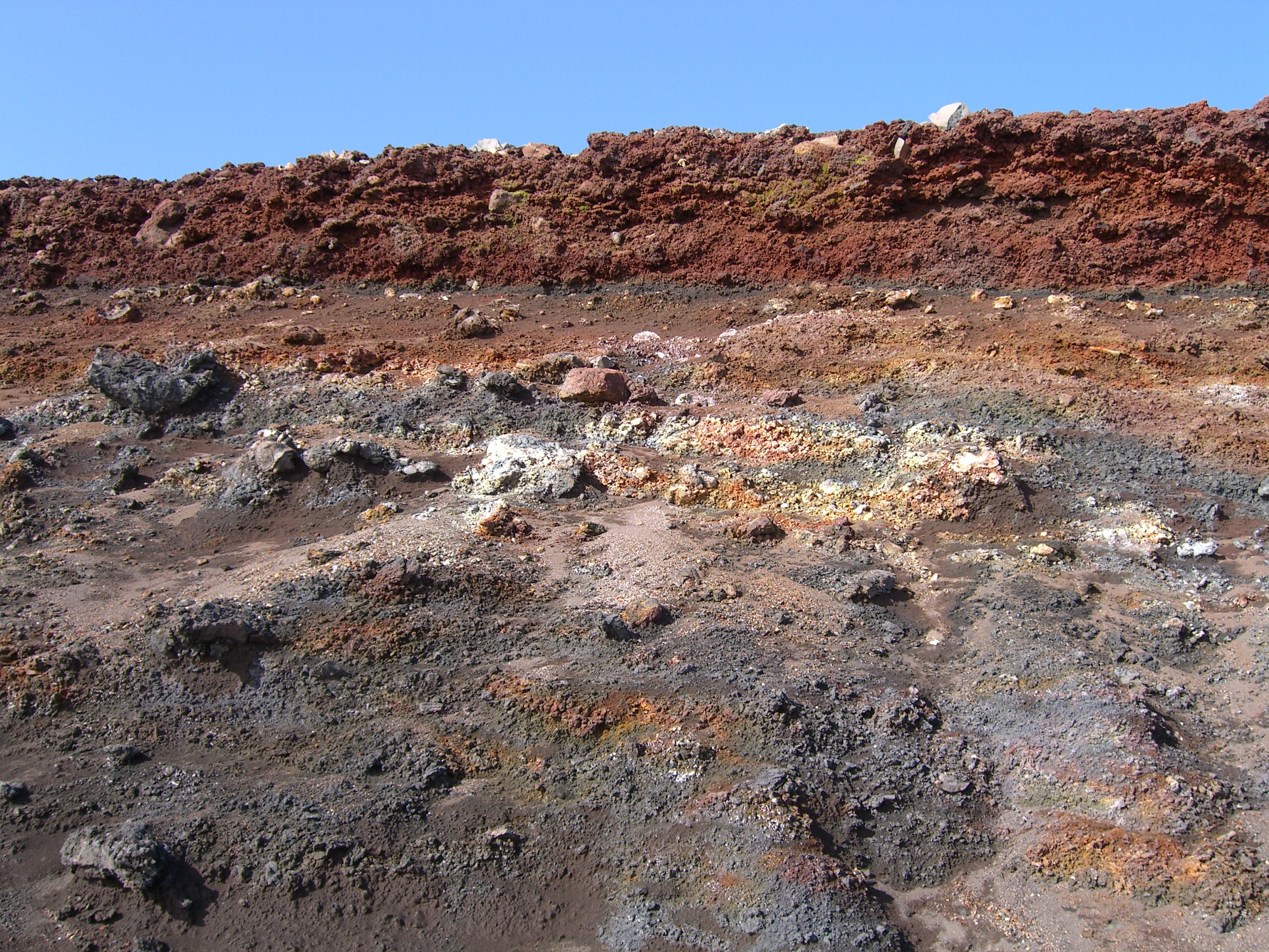 Terrain of Mount Fuji